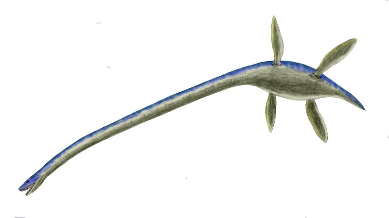 “Thalassomedon haningtoni”, a plesiosaur from the Upper Cretaceous of North America, pencil drawing